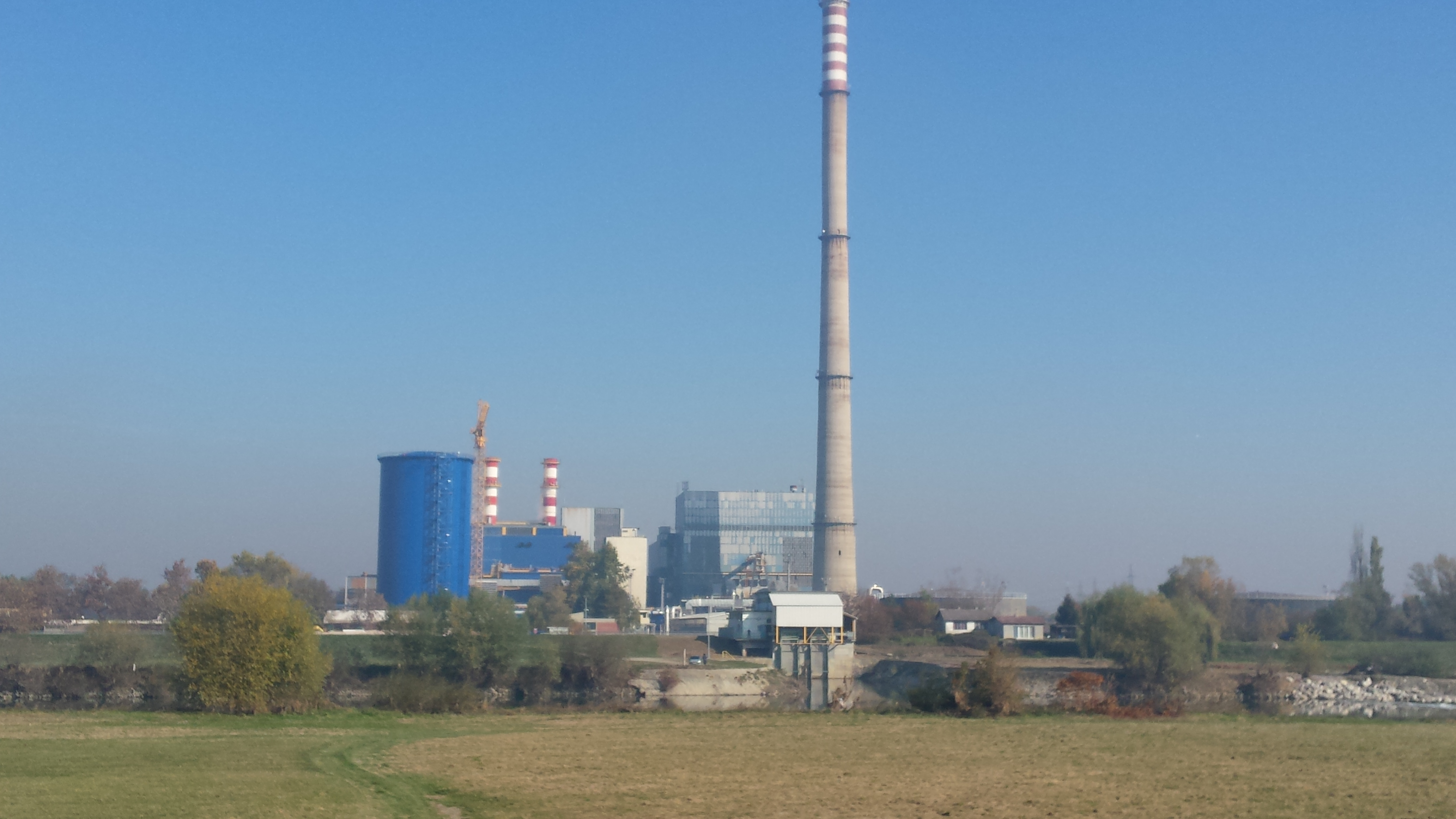 Upgraded power plant in zagreb